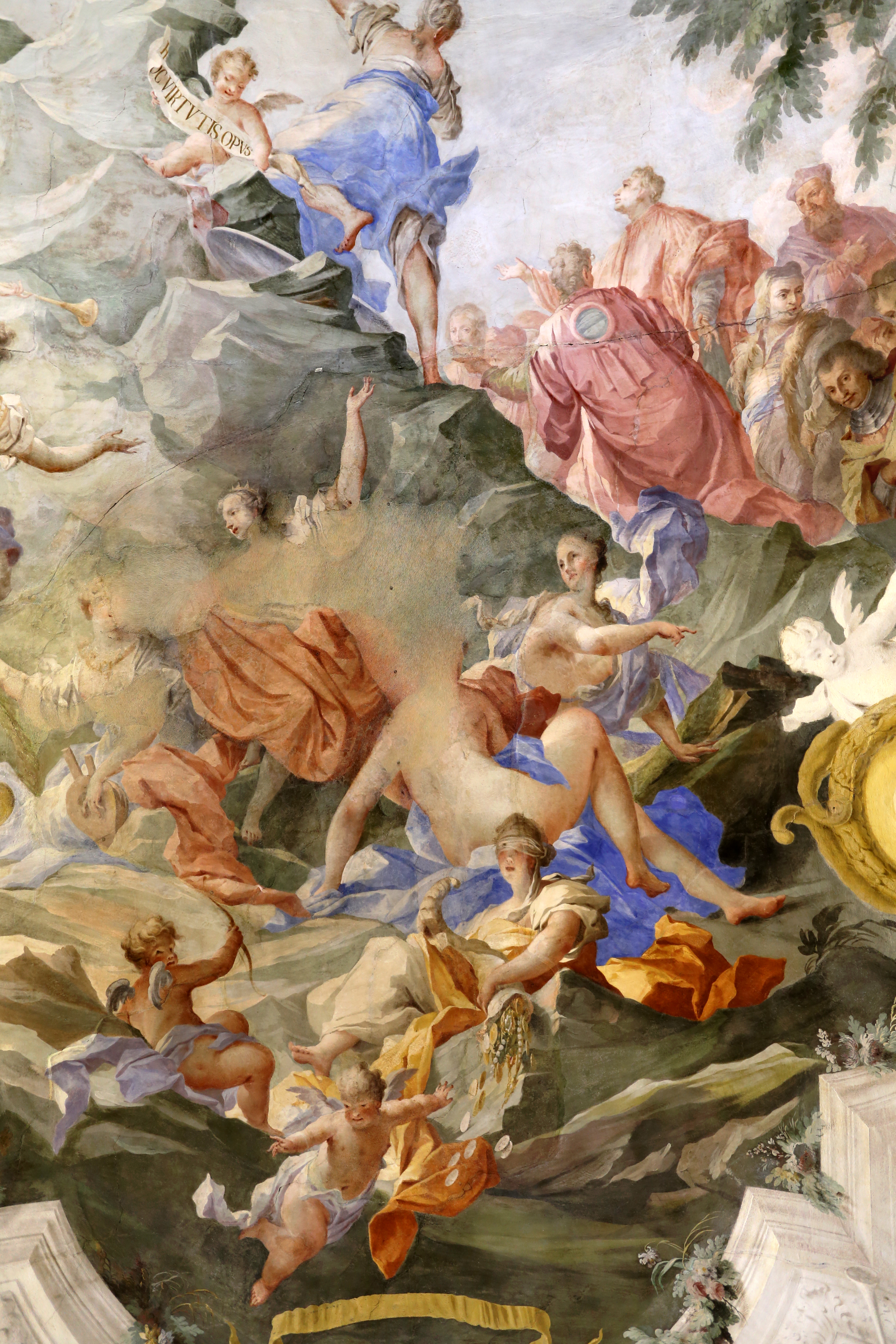 Palazzo dei Visacci - Guicciardini Gallery